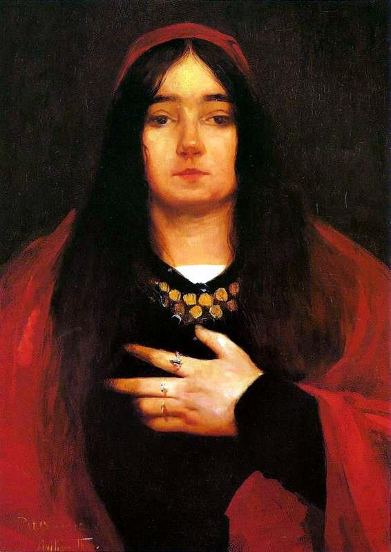 Gypsy Woman